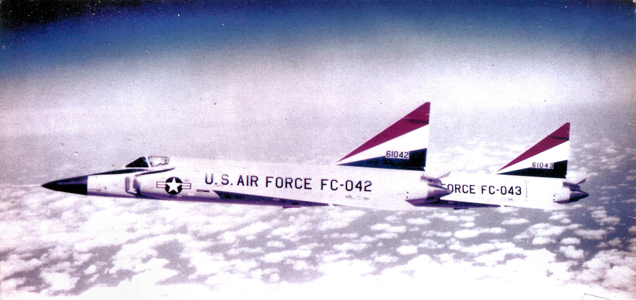 F-102As of the 32d Fighter-Interceptor Squadron, 56-1042 and 56-1043 fly over a heavy cloud layer near Soesterberg Air Base, Netherlands.